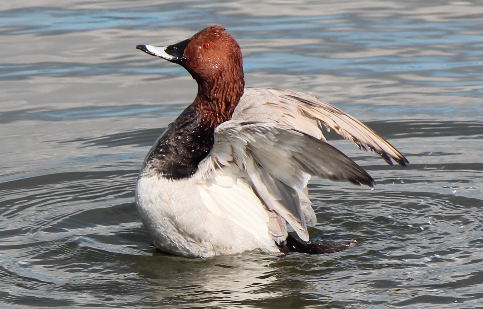 Aythya ferina (Common Pochard) opened wing in Japan